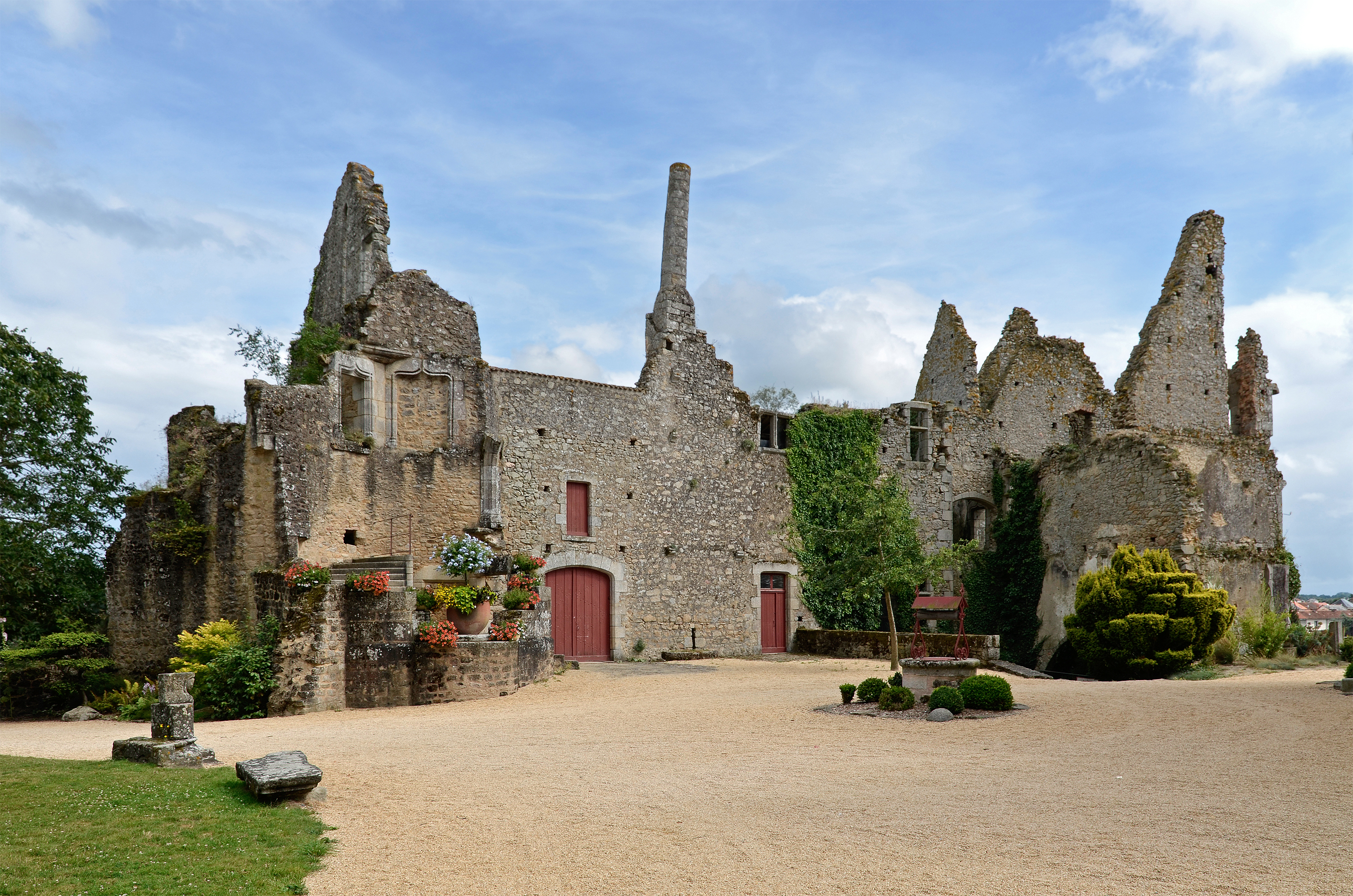 Castle of Bressuire - Deux-Sèvres, France .